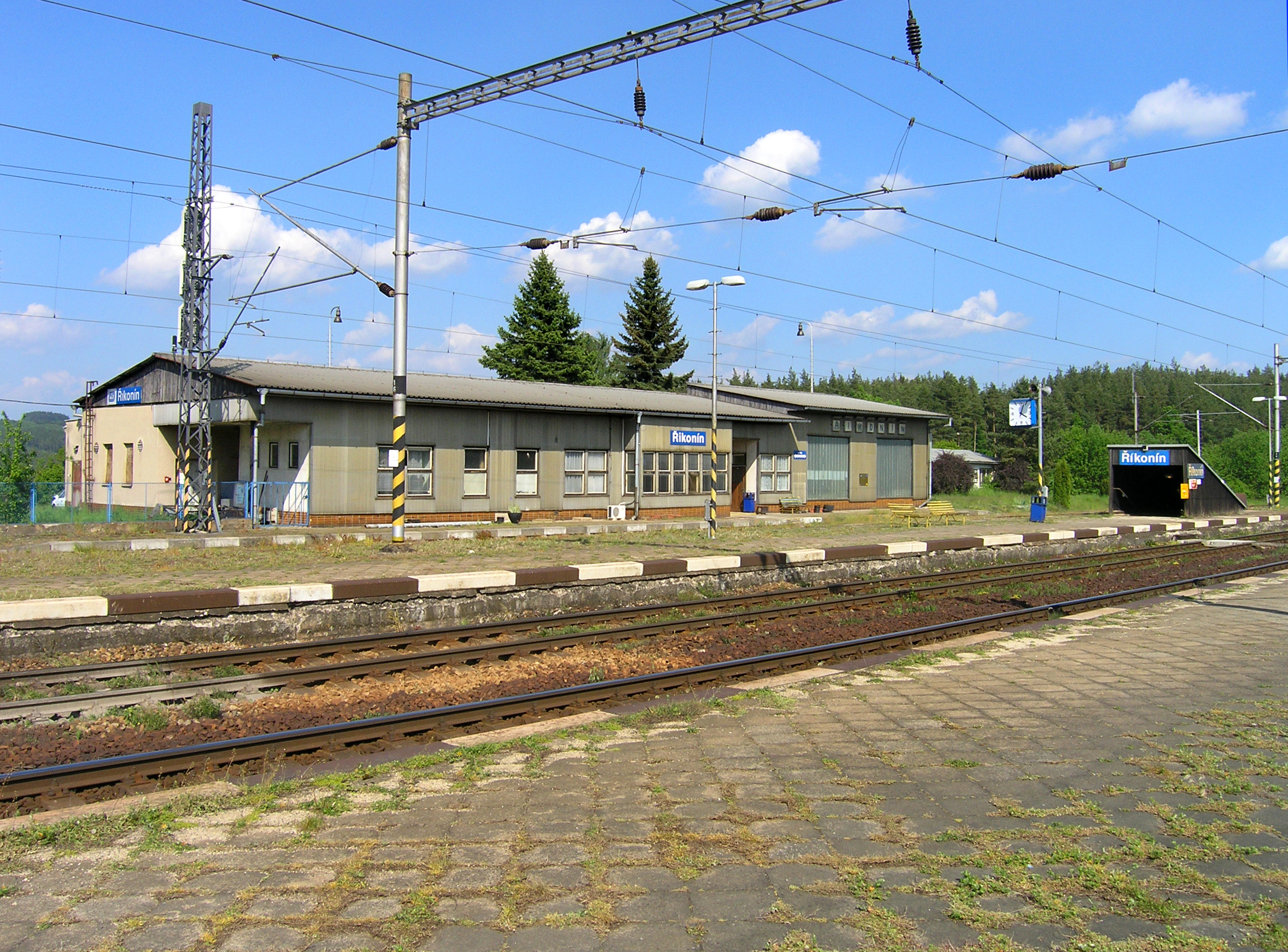 Train station in Řikonín village, Czech Republic